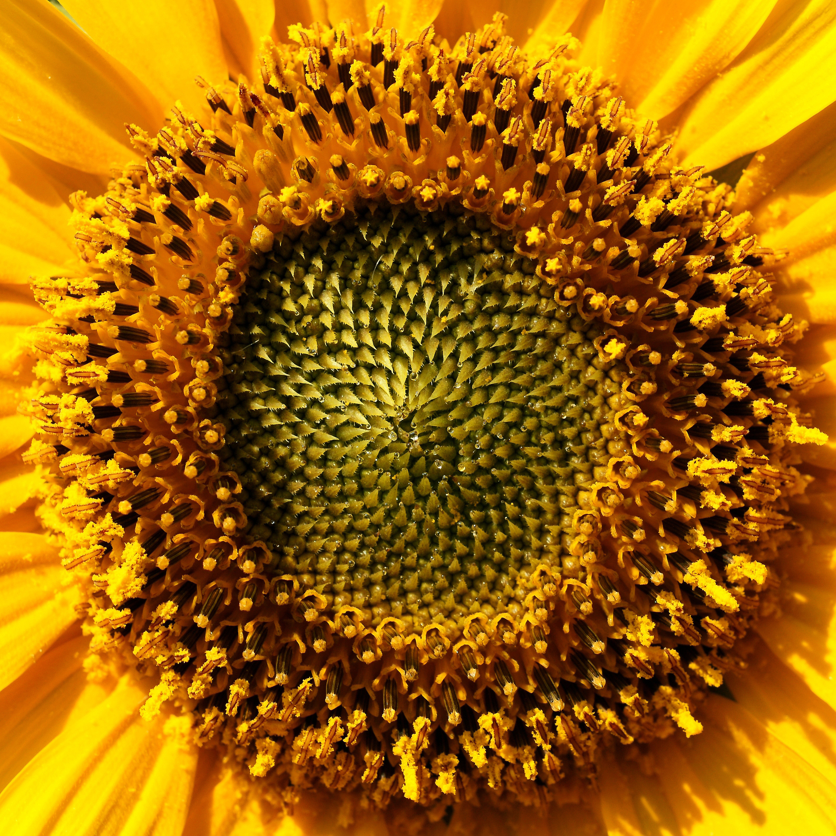 A Sunflower. The sunflower (Helianthus annuus) is an annual plant in the family Asteraceae and native to the Americas, with a large flowering head (inflorescence).